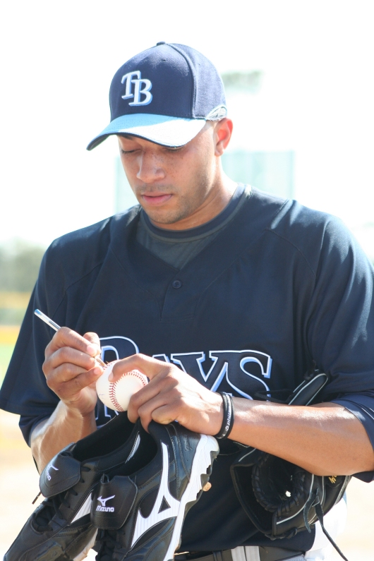 Description Tampa Bay Rays pitcher Julio DePaula signs autographs during spring training. DateSourceI created this work entirely by myself.AuthorHappyHarvick2962 (talk) 13:54, 17 February 2009 . . HappyHarvick2962 . . 530×795 (206 KB) Tampa Bay Rays pitcher Julio DePaula signs autographs during spring training.